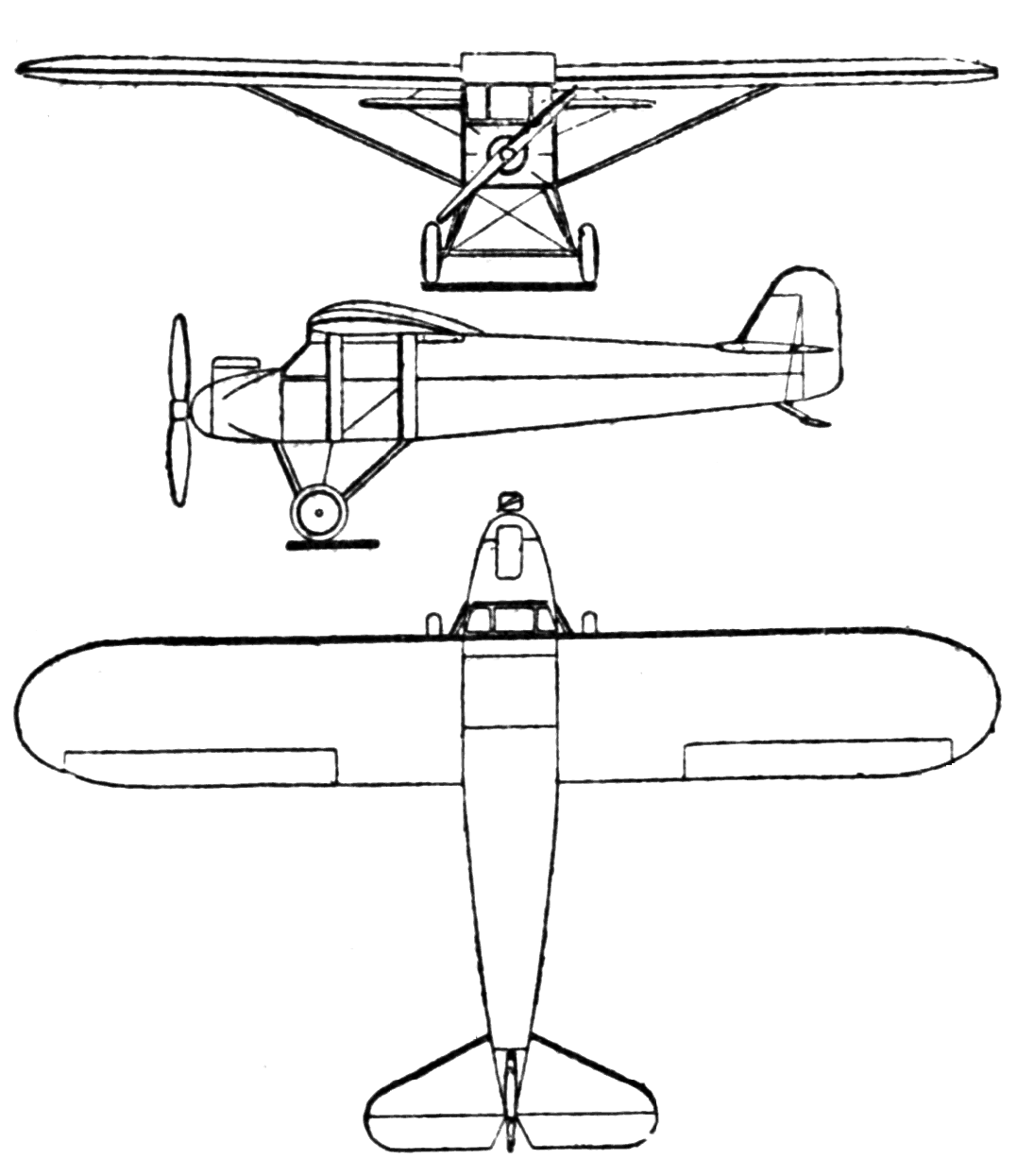 Comte AC-4 3-view drawing from Le Document aéronautique October,1928